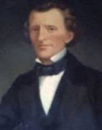 Portrait of Whitmell P. Tunstall